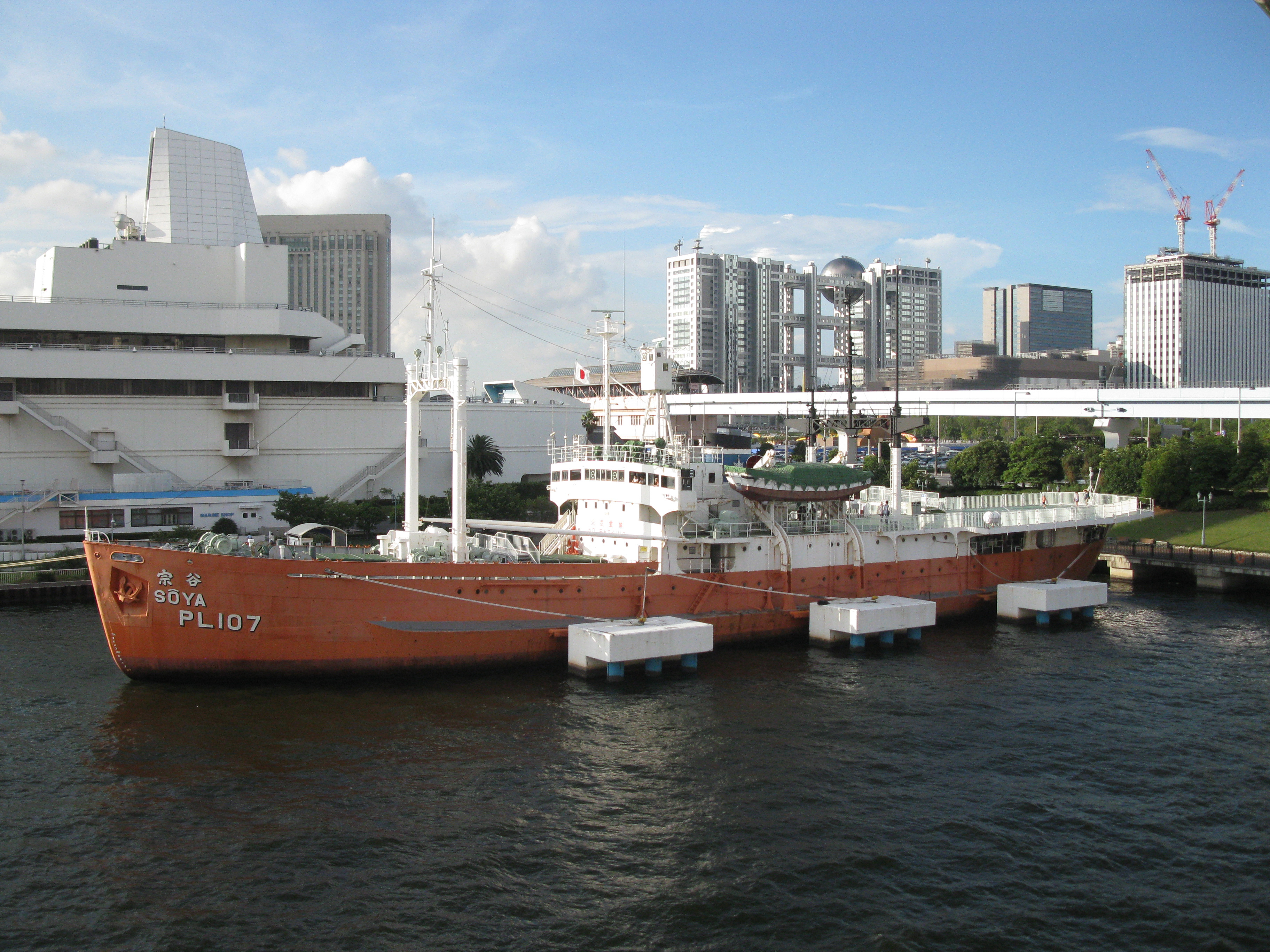 Ship "Sōya"